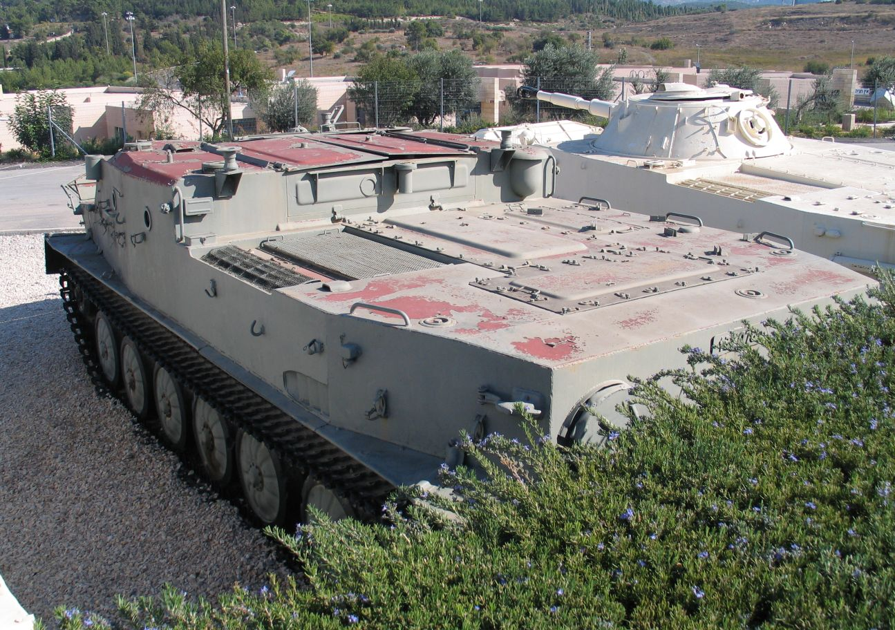 Description: BTR-50PK APC in Yad la-Shiryon Museum, Israel. 2005. Source: Photo by me, User:Bukvoed